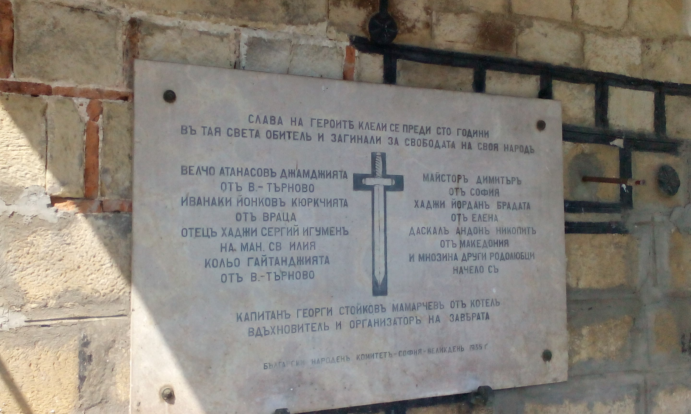 Plakovski Monastery